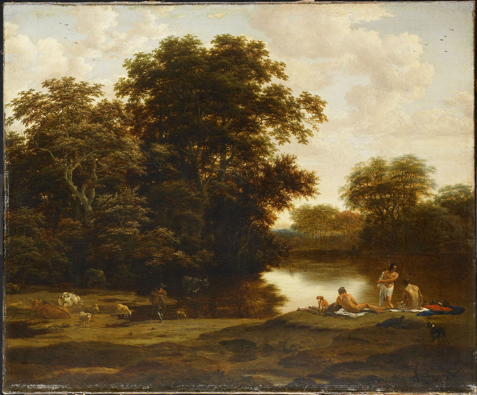 Wooded landscape with bathers. By the side of a lake a number of men (shepherds) are drying themselves after bathing. Some people are still in the water. To the left a herder with his cattle.